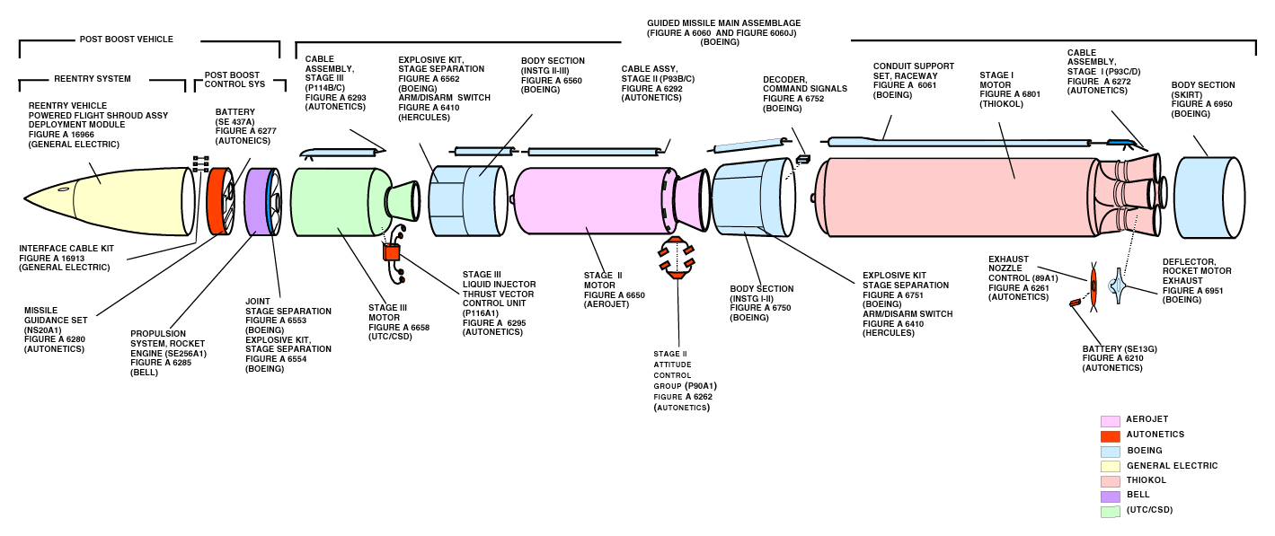 Exploded view of the Minuteman III missile.